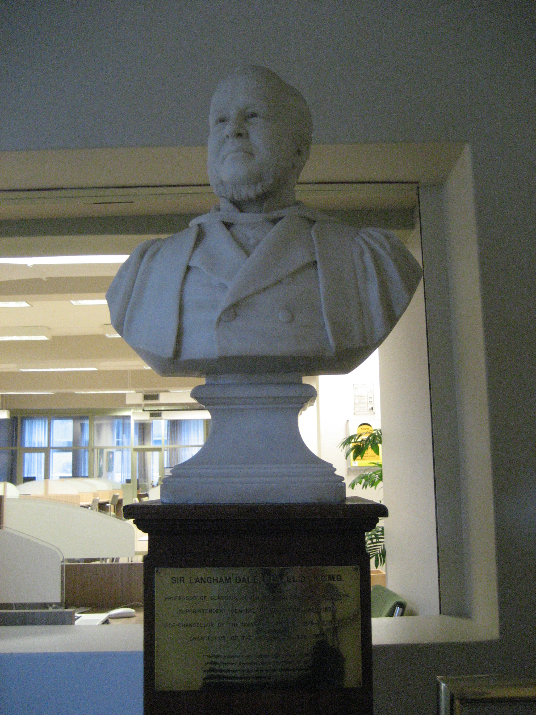 Statue of Langham Dale (1826-1898), Oppenheimer Library, Cape Town University (South Africa)